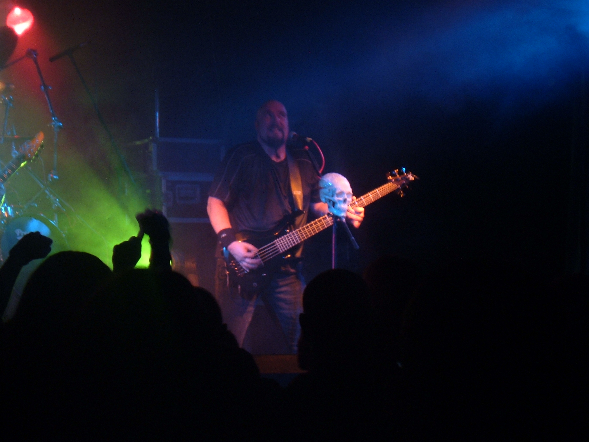 Picture taken by myself with my camera. Live in Milan, Italy (at the Rainbow). 13 April 2006. Members: Peter Wagner - vocals, bass Victor Smolski - guitar, Keyboard Mike Terrana - drums